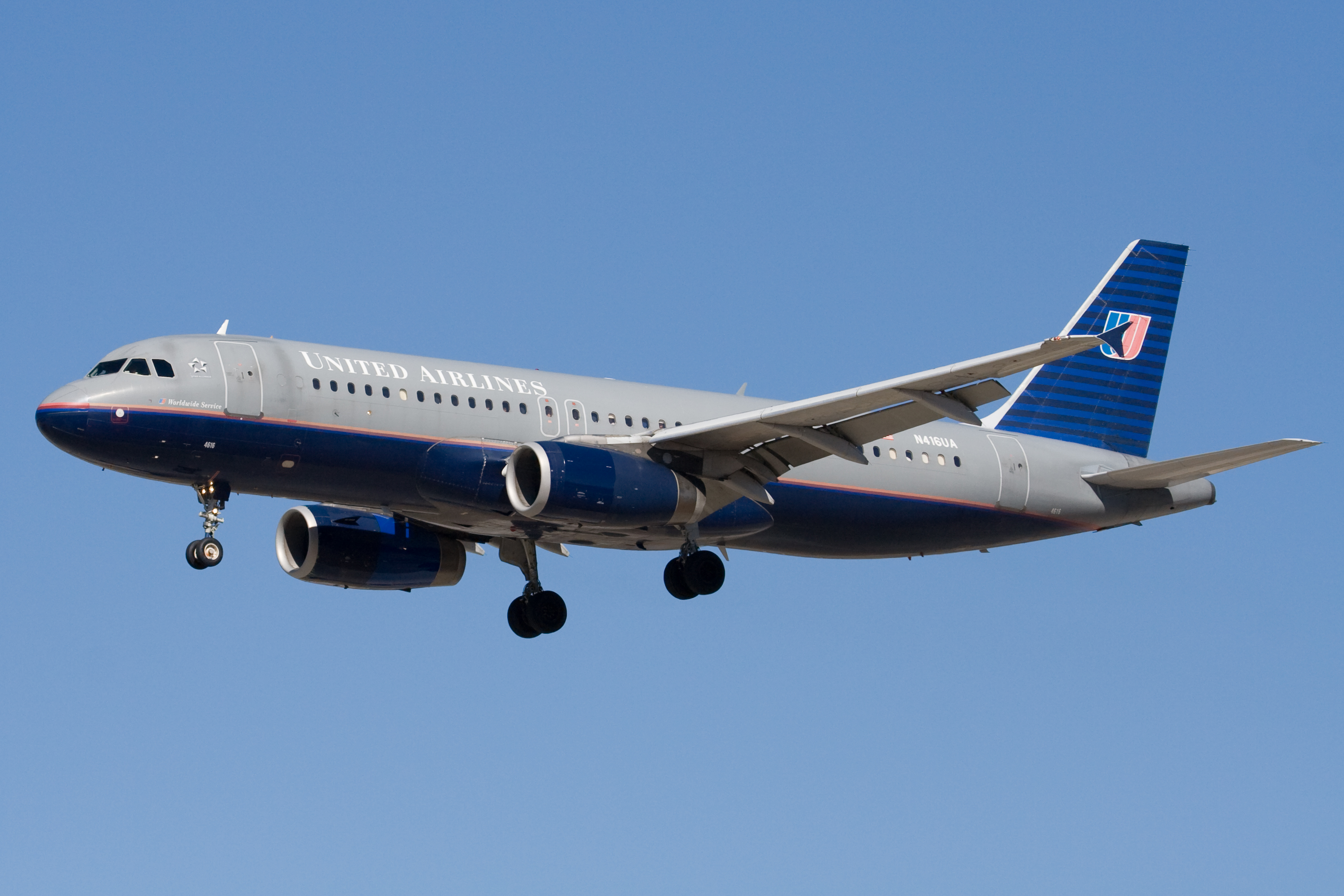 United Airlines Airbus A320 landing at San Jose International Airport